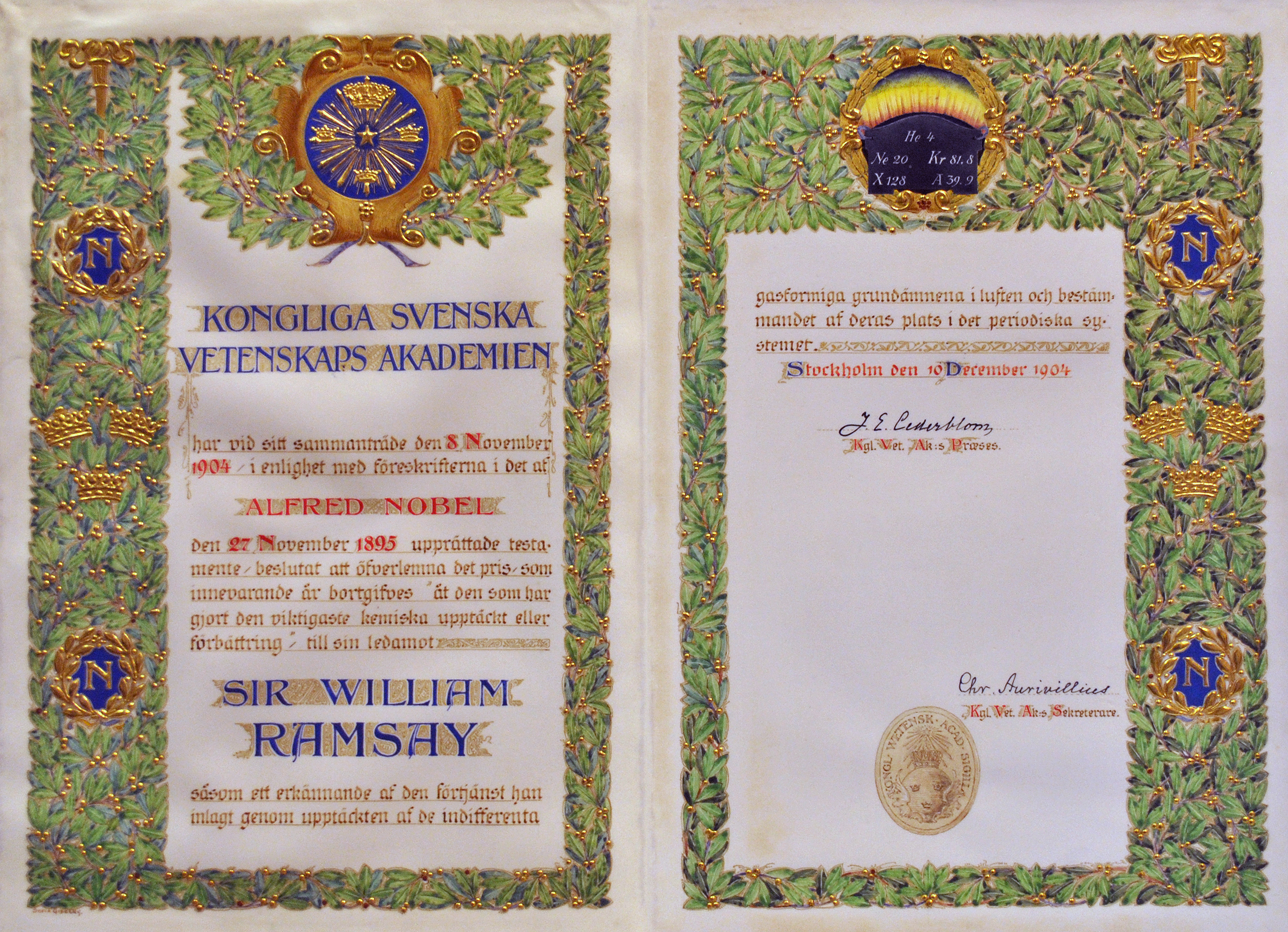 The prize certificate of William Ramsay, Nobel Prize in Chemistry, 1904. The certificate was produced by artist Sofia Gisberg, according to the Nobel Foundation website